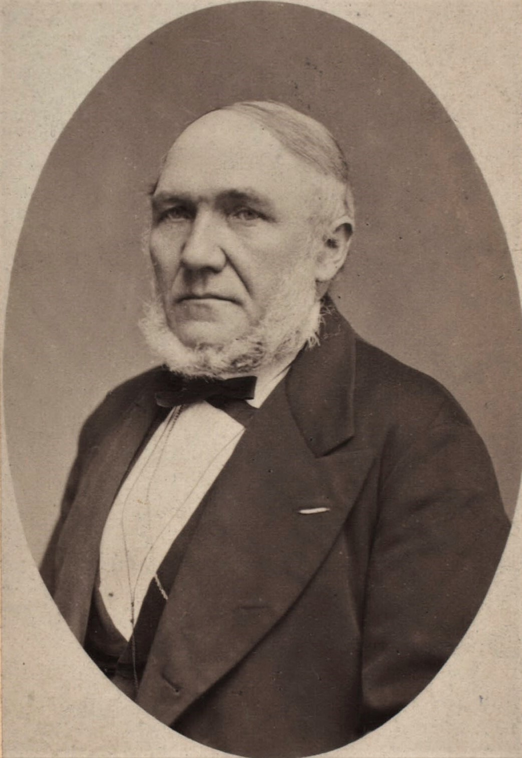 Hans Christopher Müller (1818-1897), Faroese politician, MP